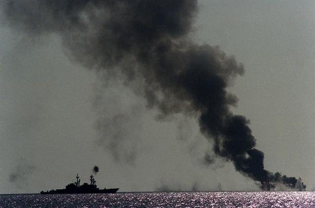 The destroyer USS JOHN YOUNG (DD 973) shells a pair of Iranian command and control platforms in response to a recent Iranian missile attack on a reflagged Kuwaiti super tanker.